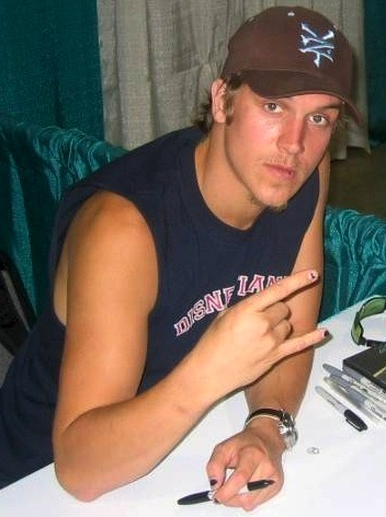 Actor Jason Mewes signing at Wizard World 2004. Wizard World Convention, Long Beach